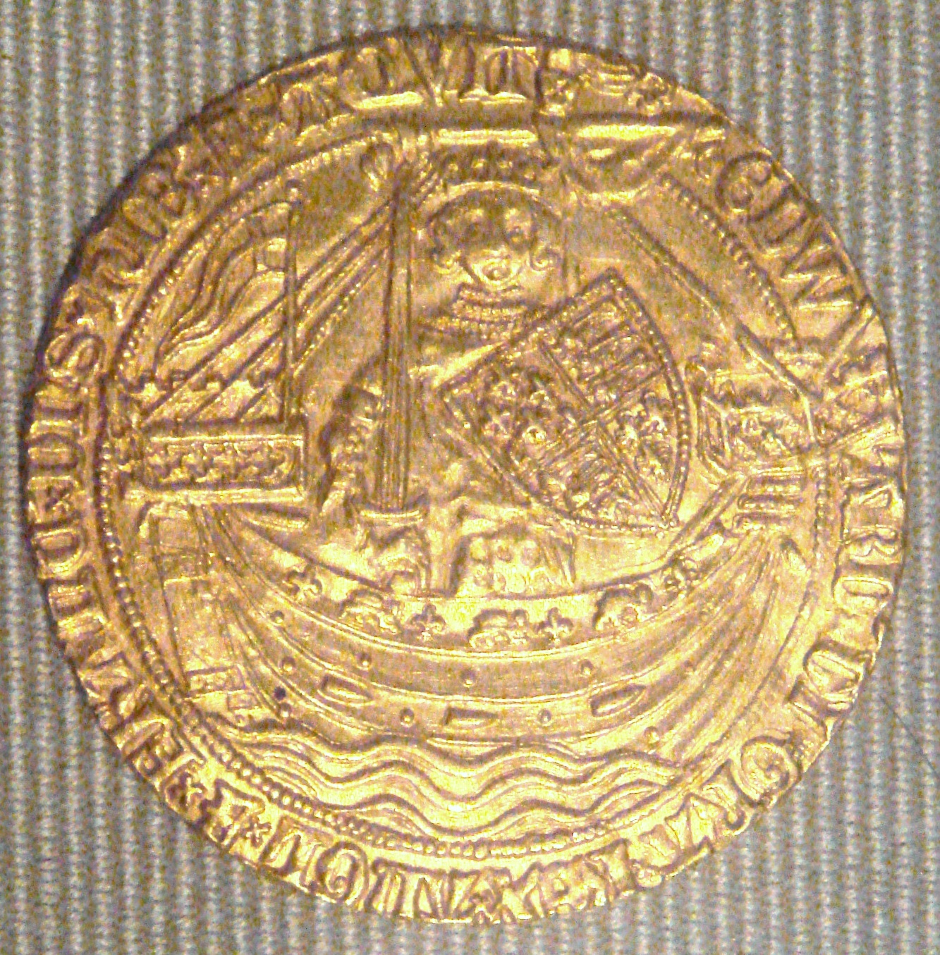 Edward_III_1344_noble_gold_33mm_6780mg